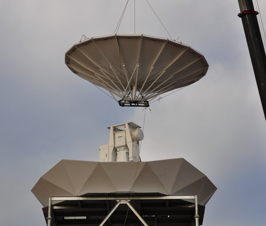 OU-PRIME3